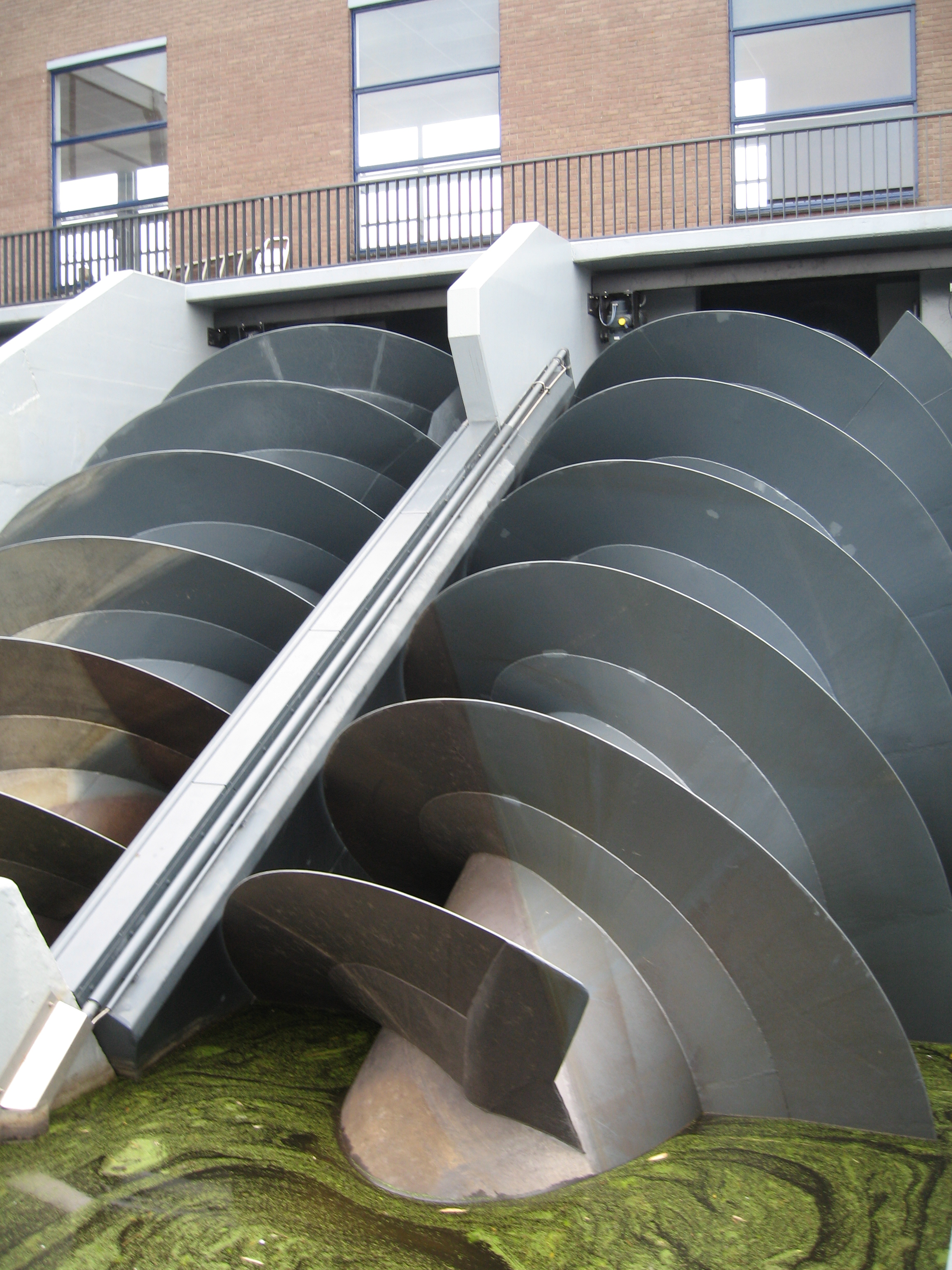 Kinderdijk, modern Archimedes' screw in a Pumping station in Kinderdijk, The Netherlands. Picture by M.A. Wijngaarden.